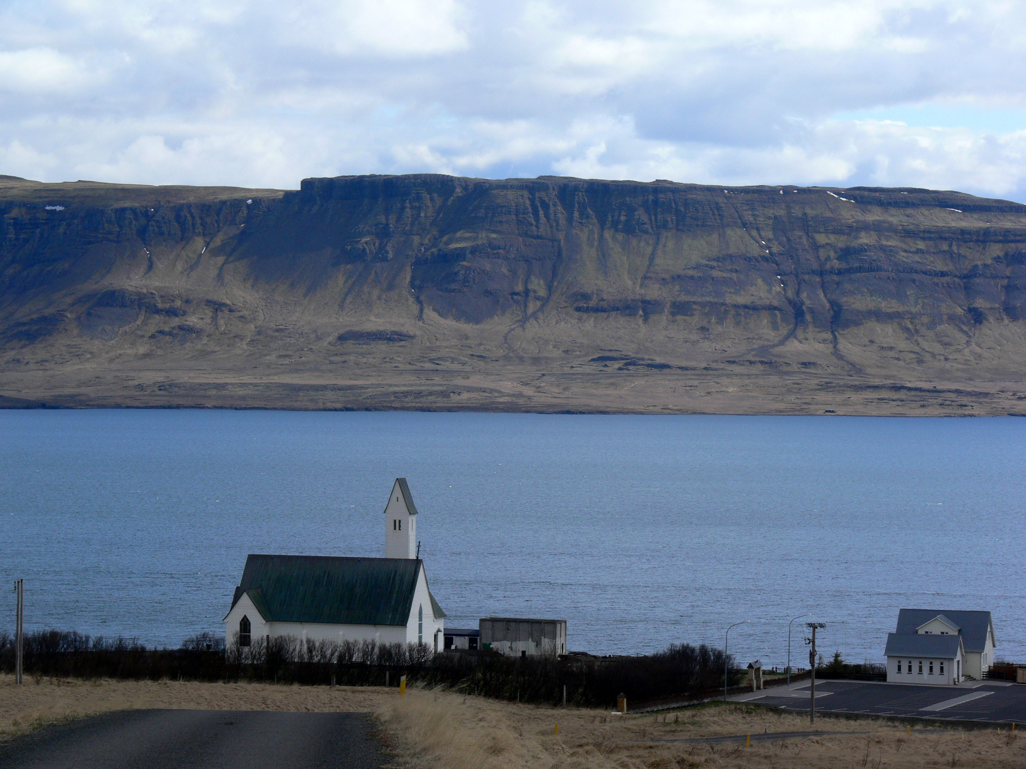 Hvalfjörður. The church Saurbær. The Rev. Hallgrímur Pétursson lived in Saurbær from 1651 to 1669. Regarded as Iceland's greatest devortional poet, he is famed for his Hymns of the Passion.